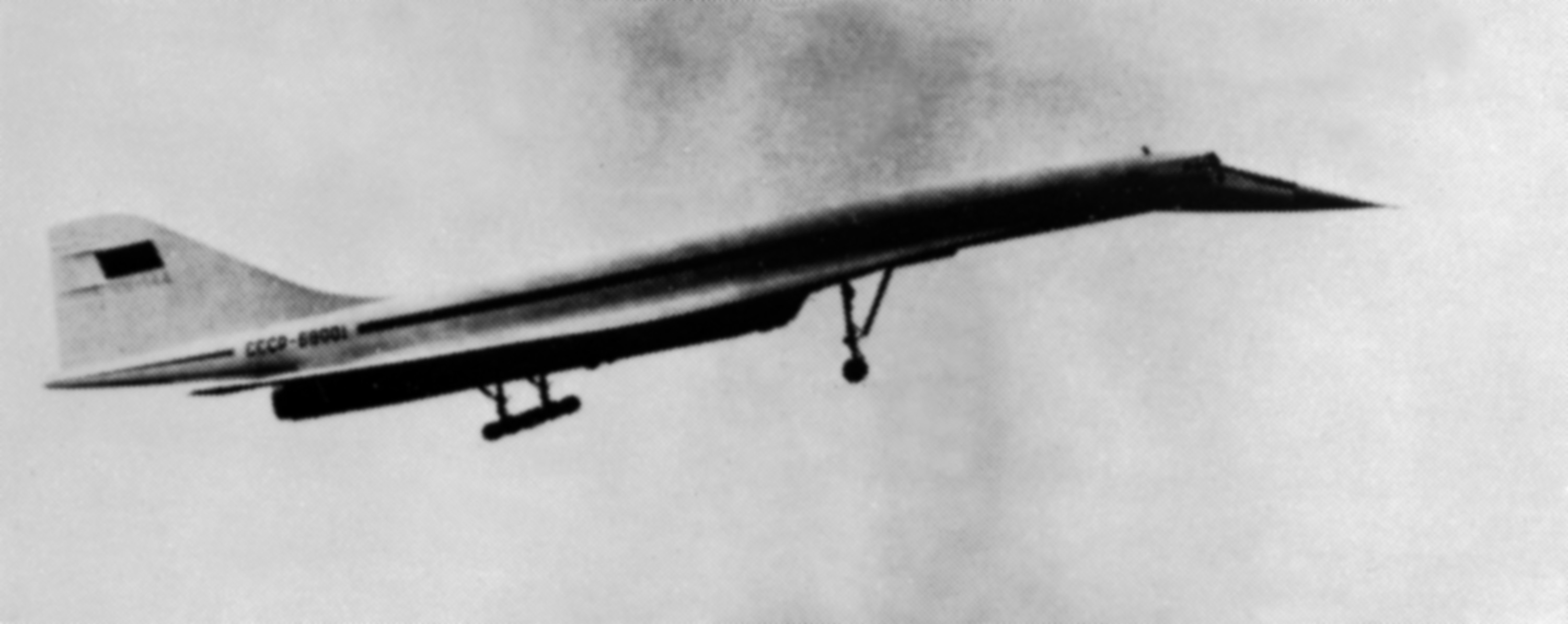 An air-to-air right side view of a Soviet Tupolev Tu-144 (CCCP-68001) Charger supersonic transport aircraft.